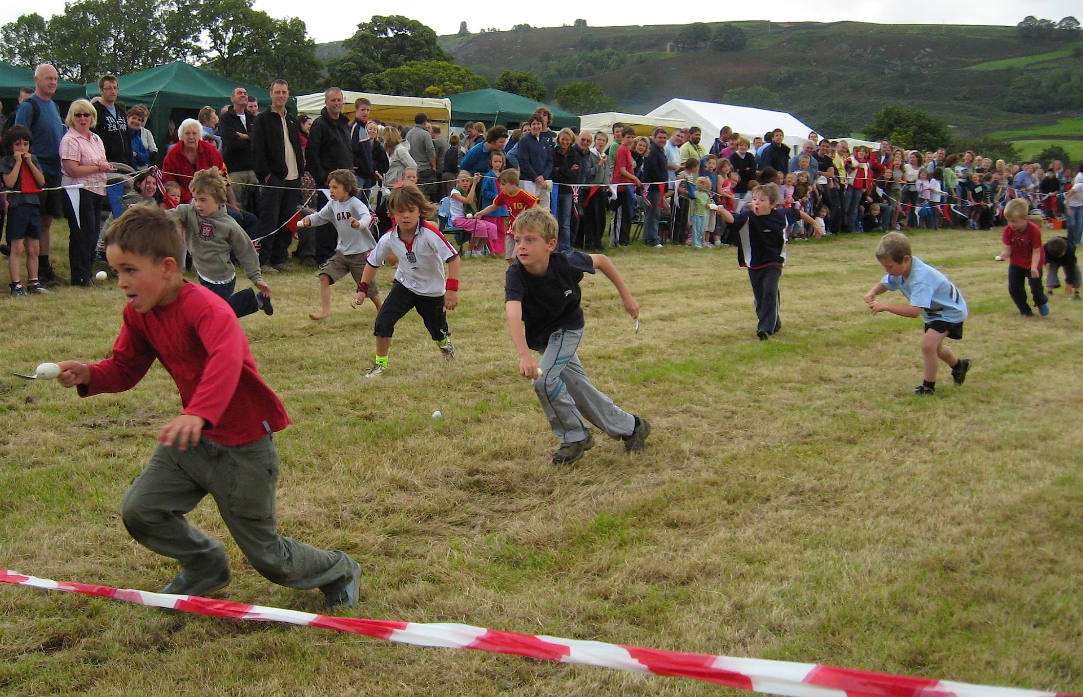 Children's egg & spoon race, Hebden Sports Day, Hebden, Yorkshire